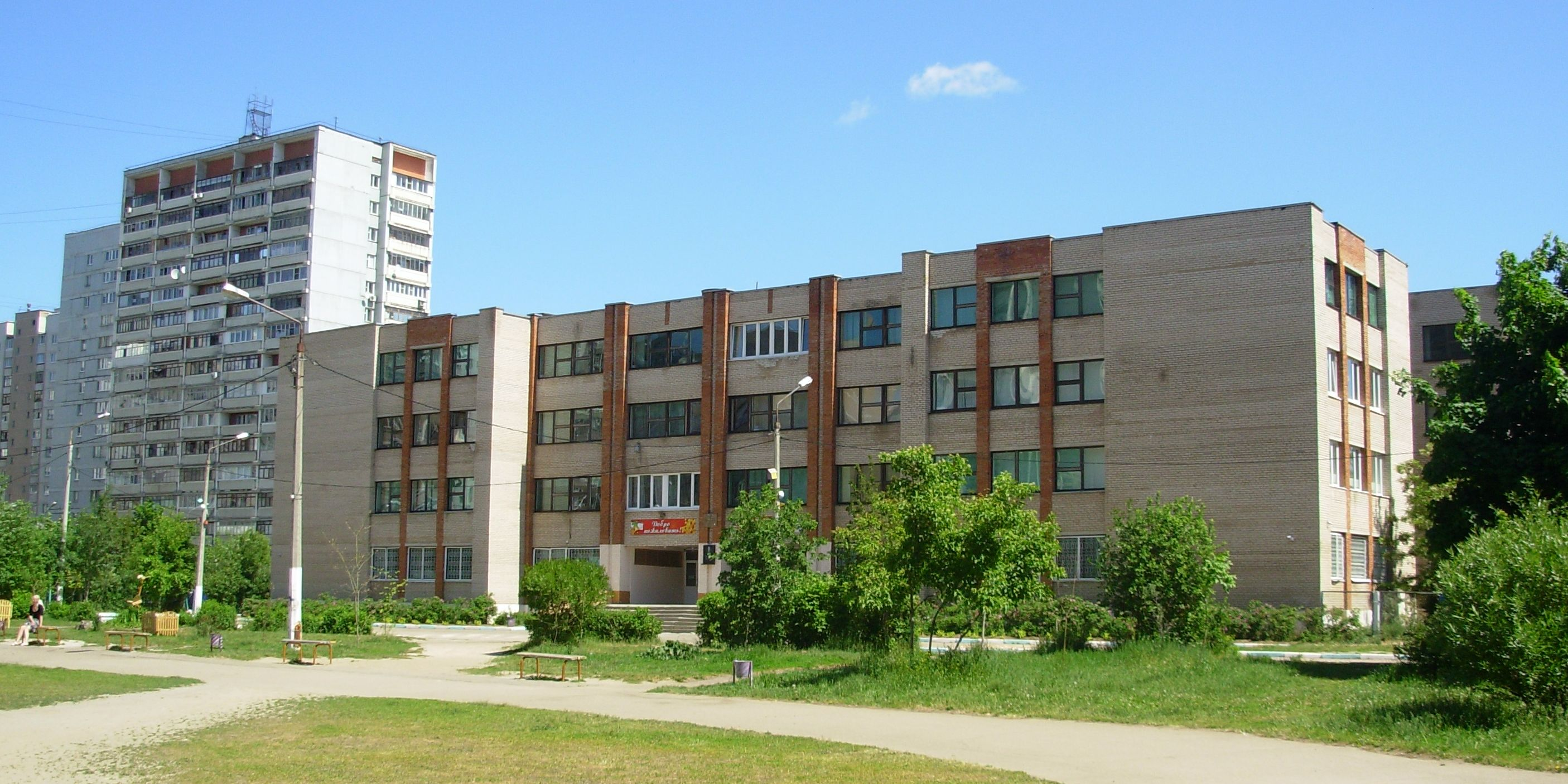 school18